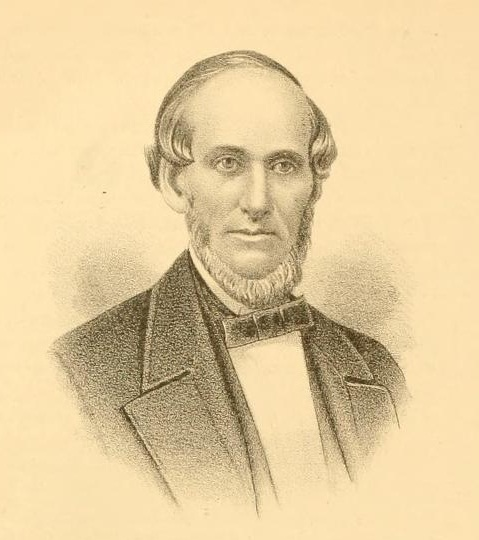 Portrait of New York canal commissioner Oliver Bascom